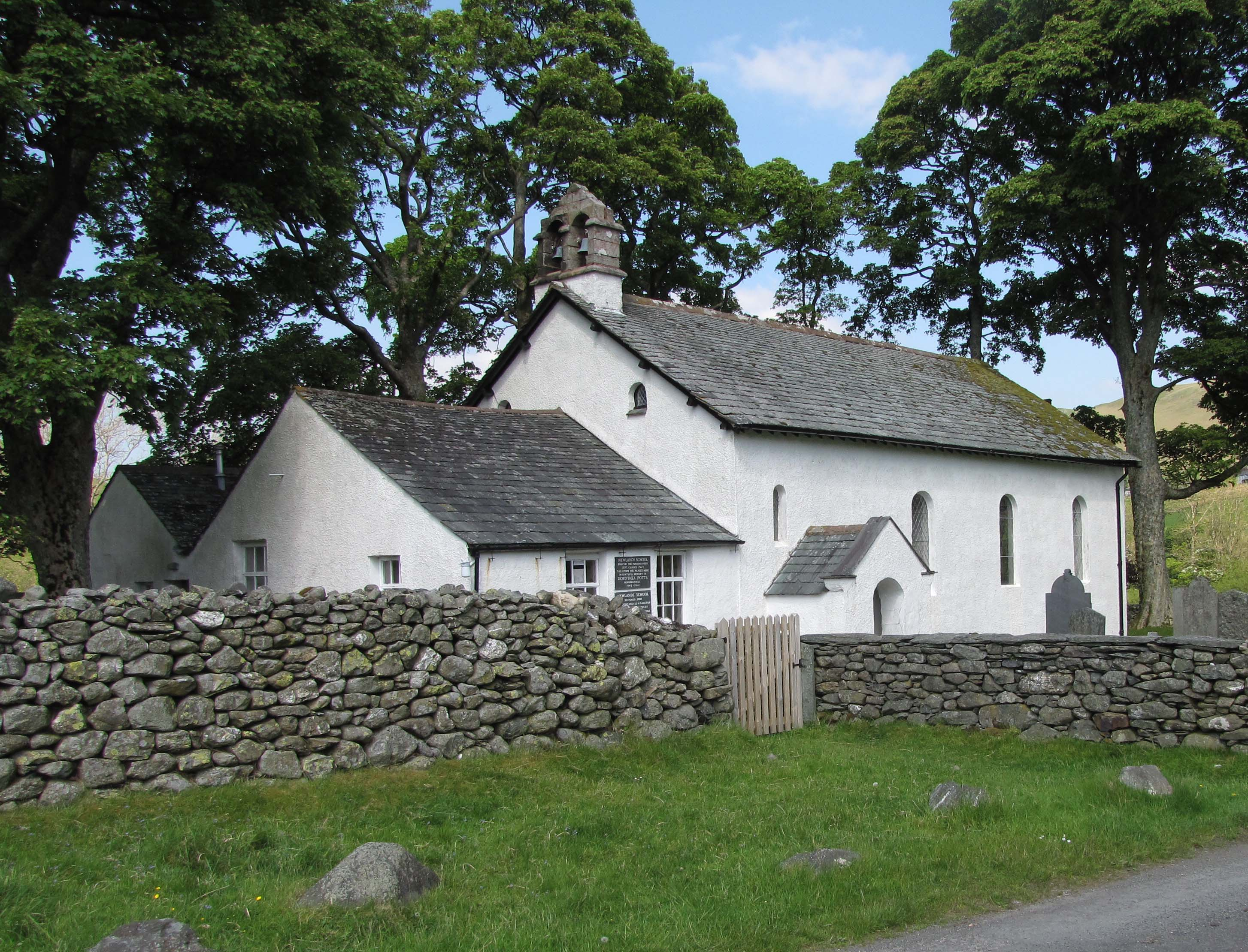 Newlands Church in the Newlands Valley in the English Lake District.